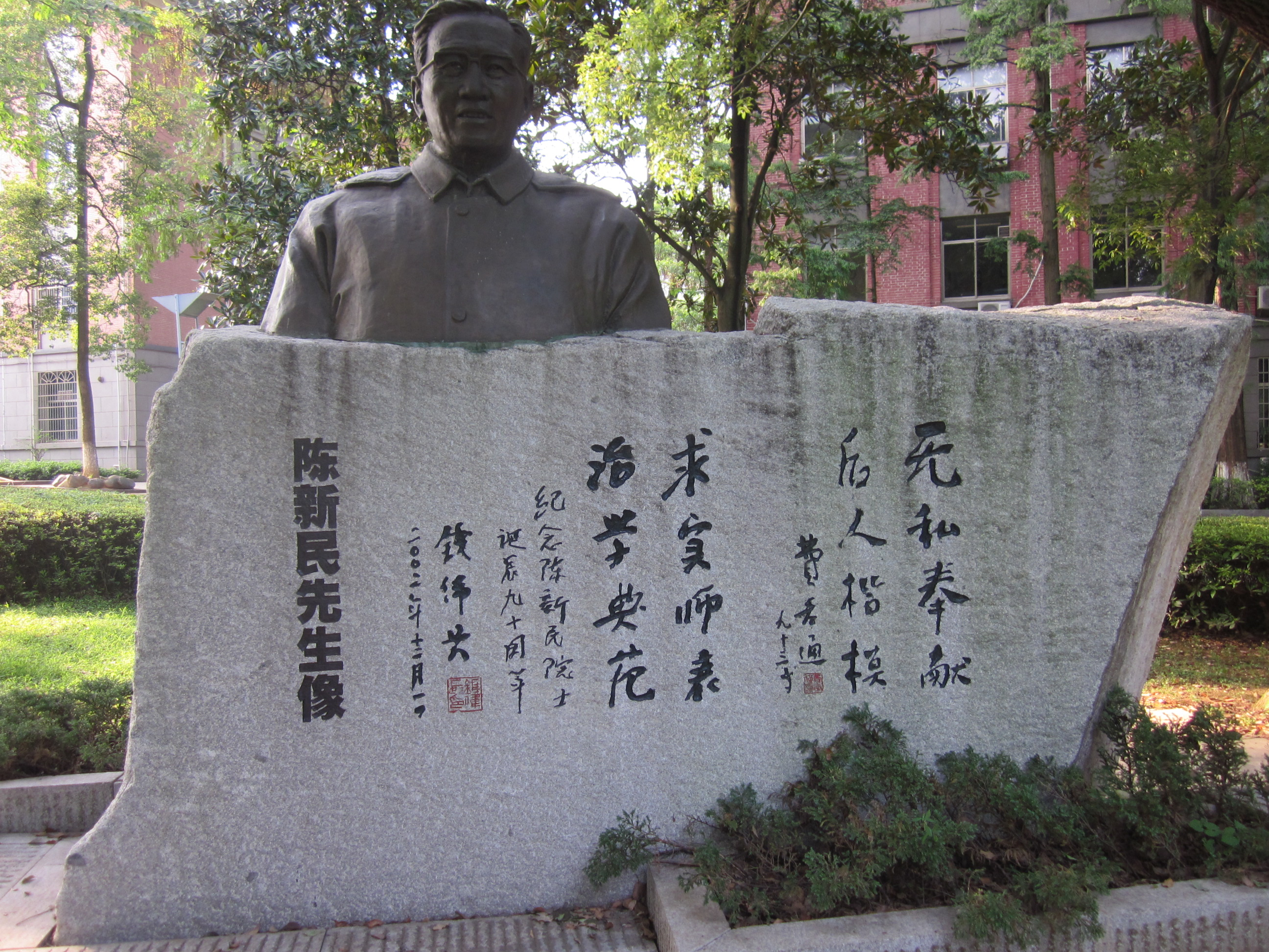 Bust of Chen Xinmin in Central South University. Chen Xinmin (18 November 1912 - 23 December 1992) was a member of the Chinese Academy of Sciences (CAS) and the first president of Central South University. He graduated from Tsinghua University and Massachusetts Institute of Technology.